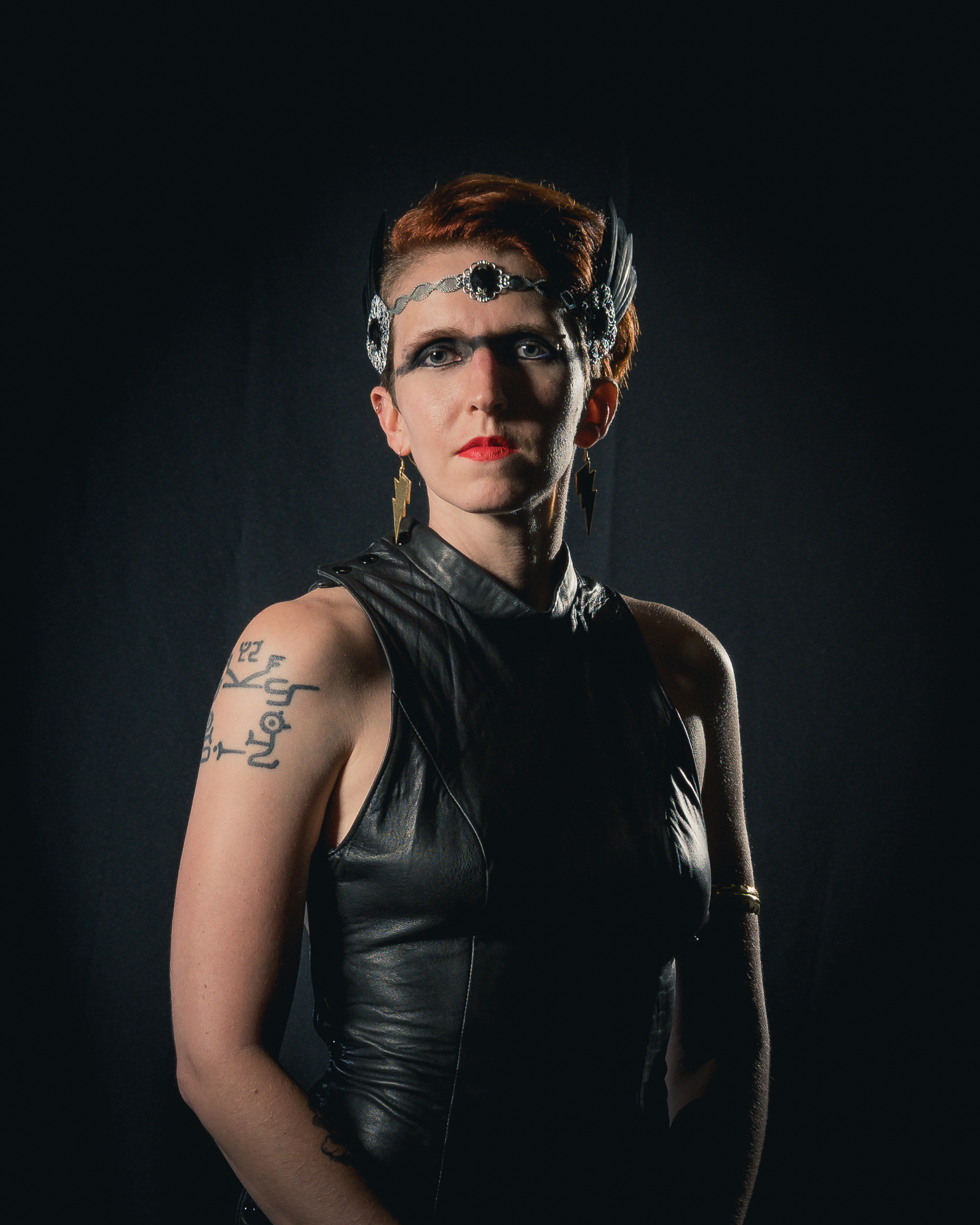 Portrait photoshoot at Worldcon 75, Helsini, before the Hugo Awards: Brooke Bolander.